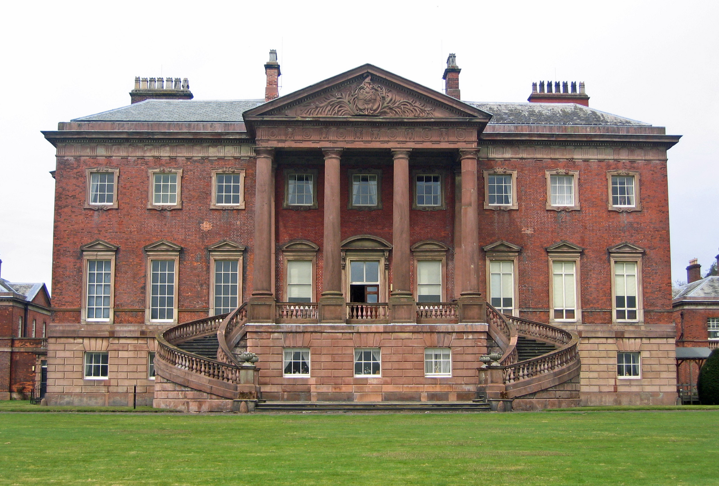 Photograph of Tabley Hall from the south